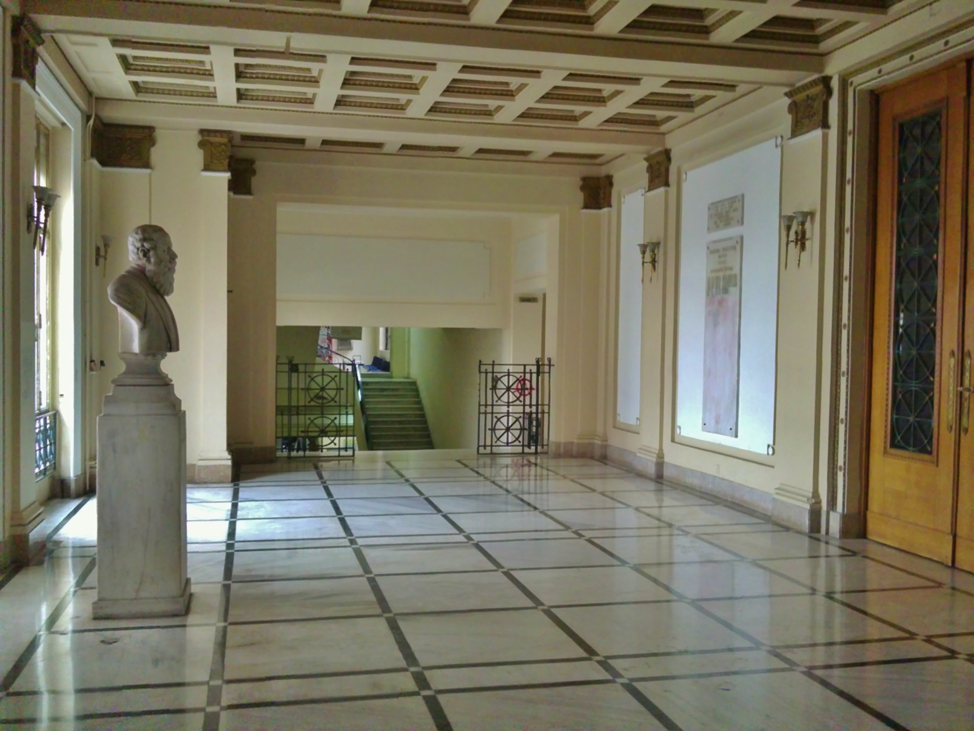 aueb royal